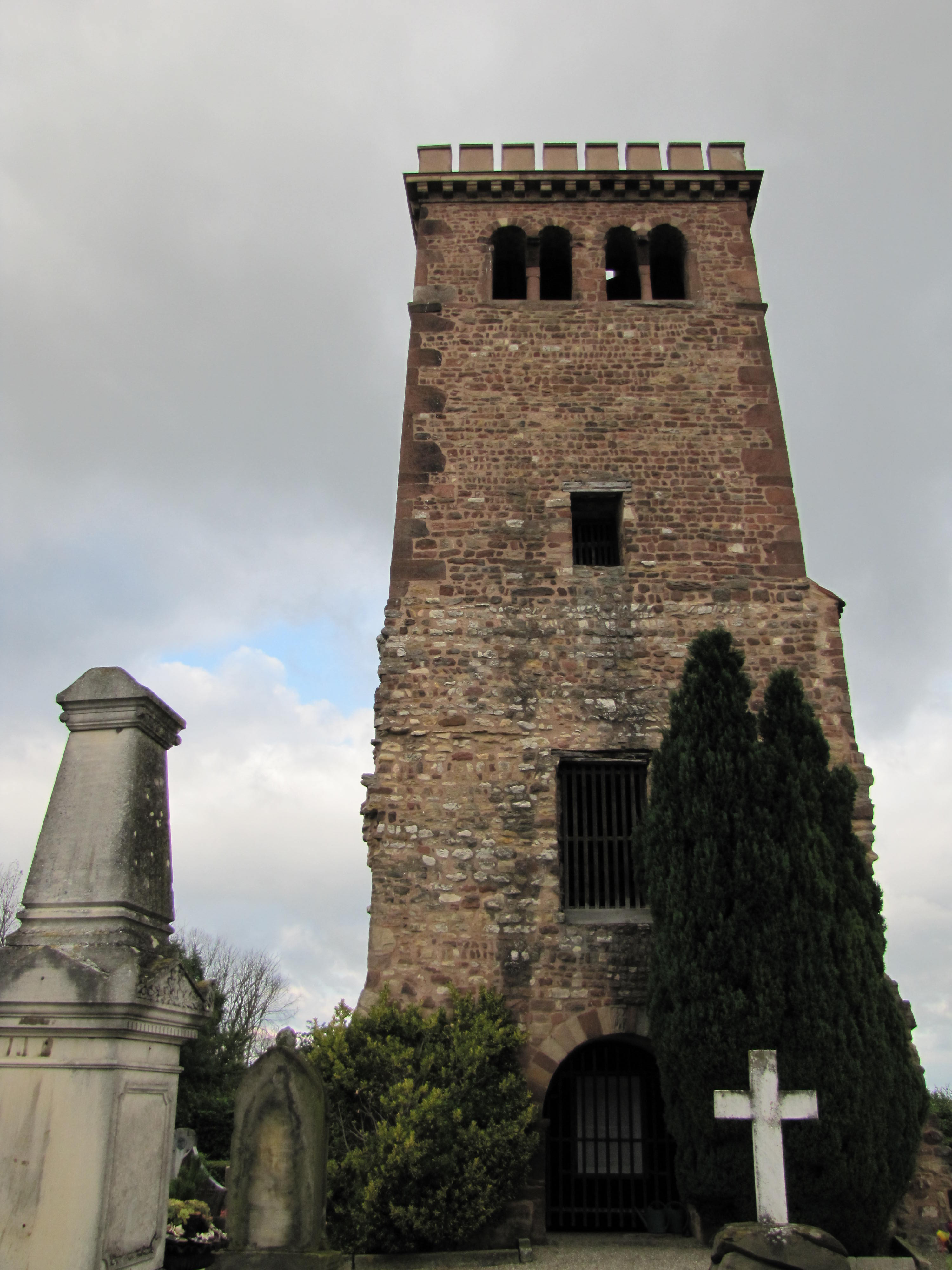 Alsace, Bas-Rhin, Blaesheim, Clocher du Gloeckelsberg (XIe-XIIe) (église détruite pendant la guerre de 30 ans): It is indexed in the Base Mérimée, a database of architectural heritage maintained by the French Ministry of Culture, under the references PA00084625 and IA00023156 .